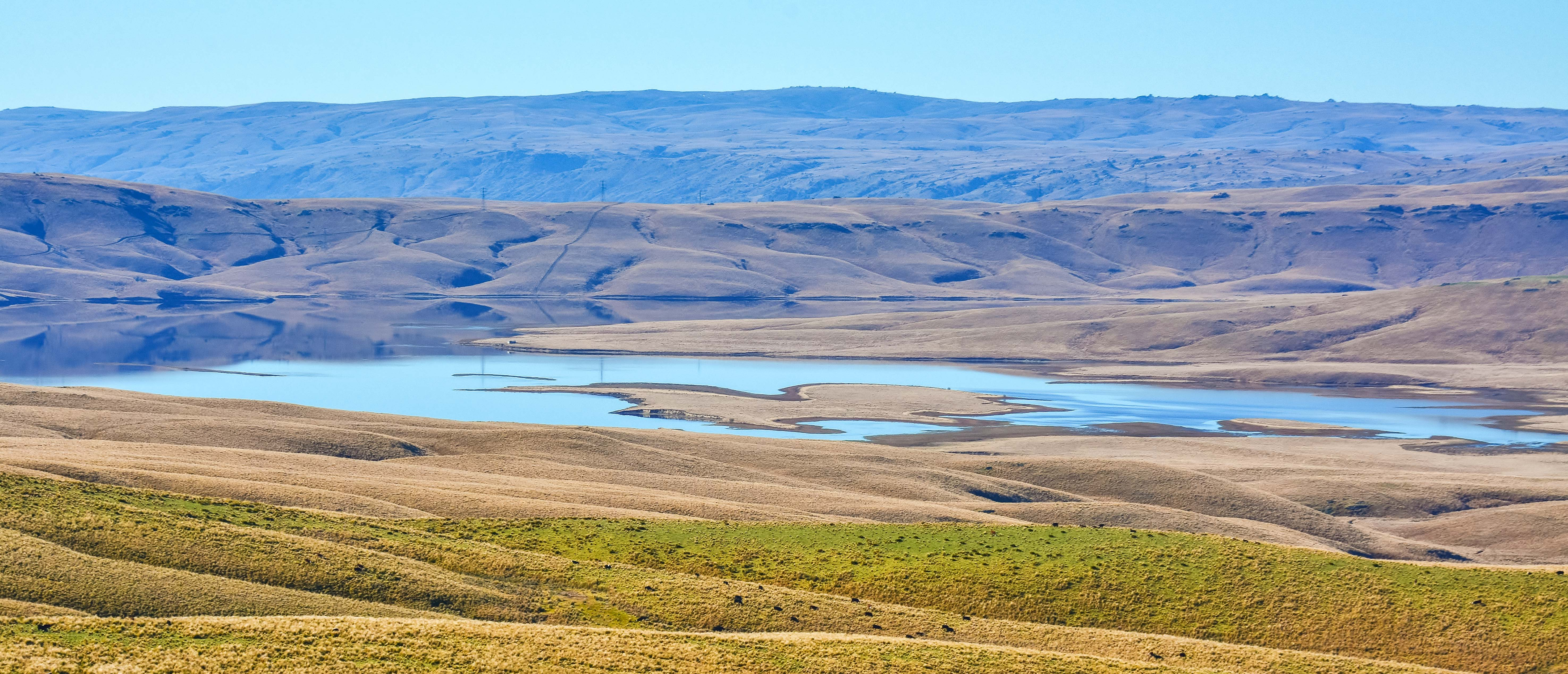 Proposed Hydro Dam to be reassessed